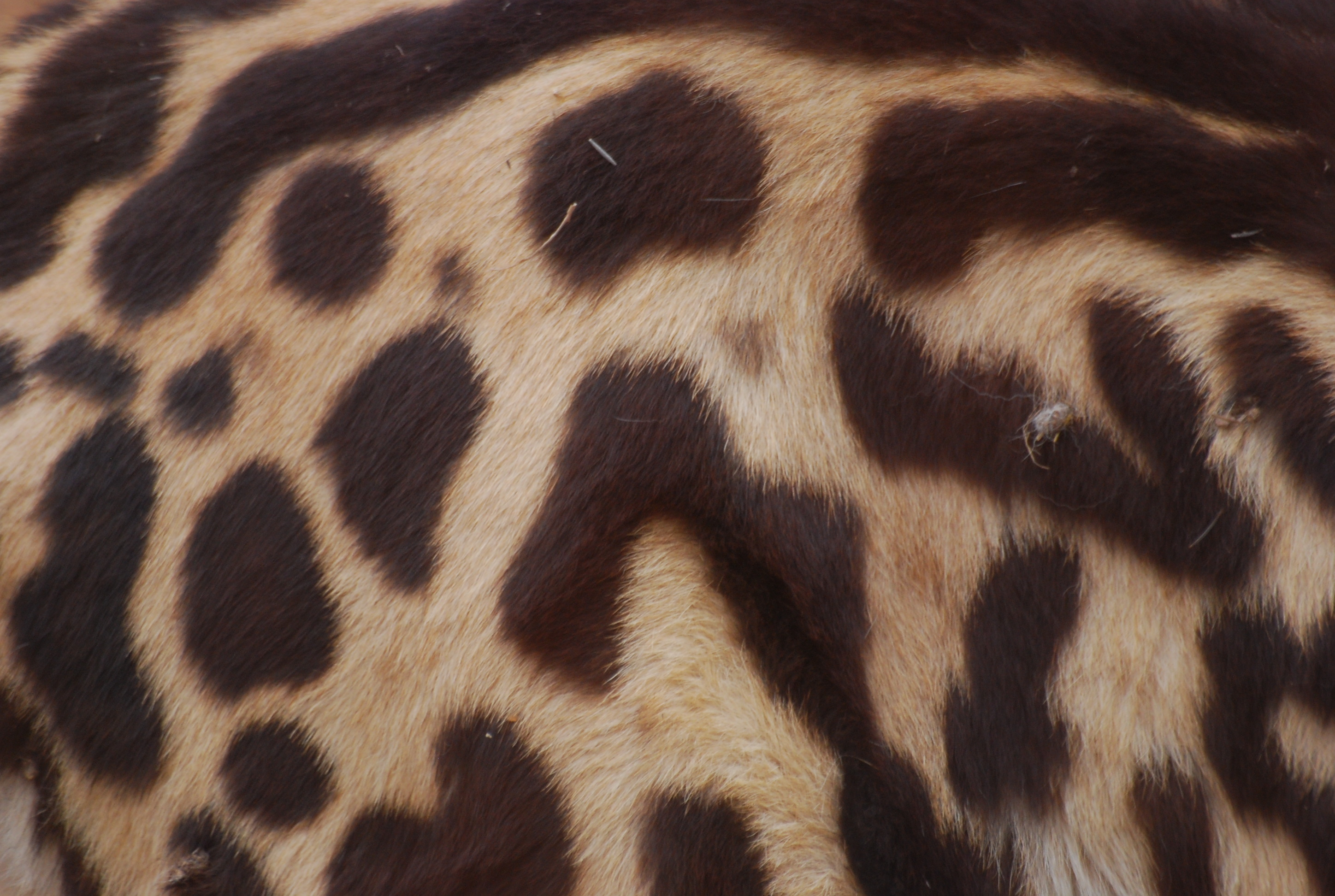 a king cheetah in South Africa